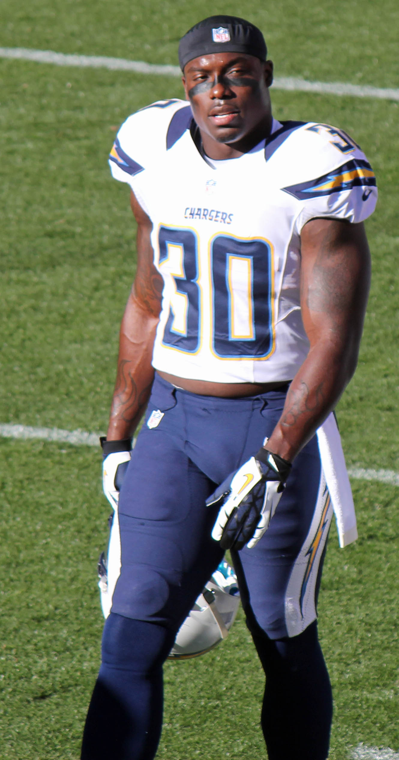 Ronnie Brown, a player on the National Football League.